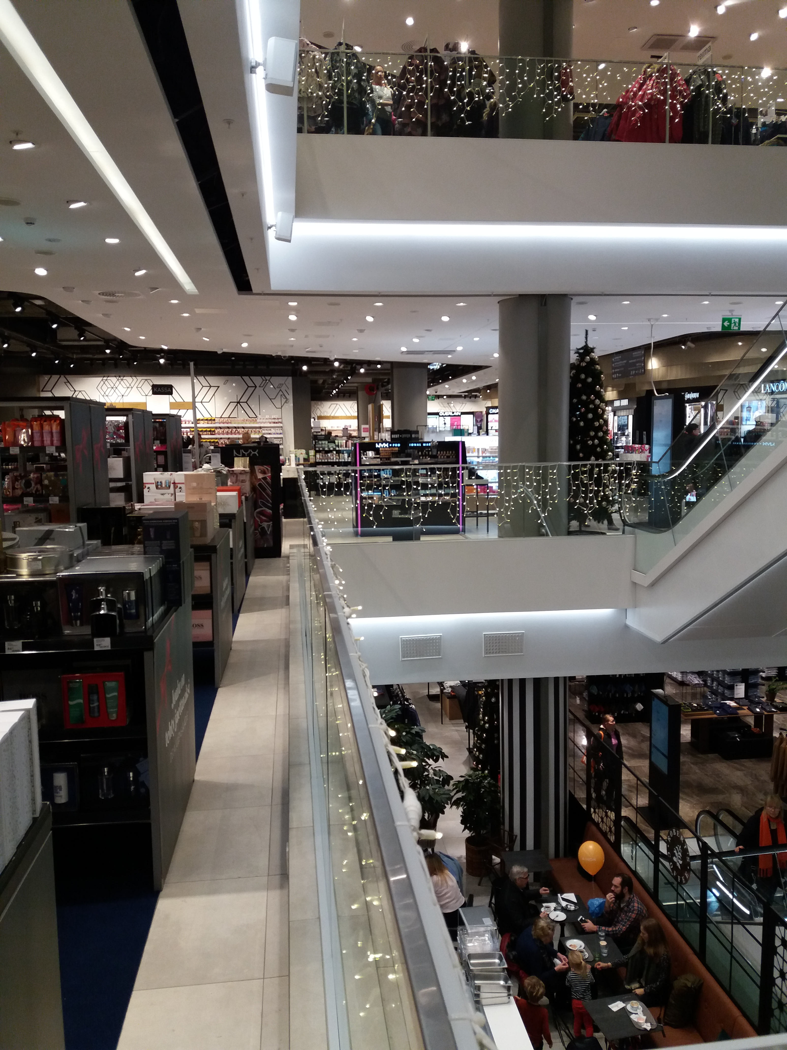 New Stockmann department store in Tapiola, Espoo, Finland